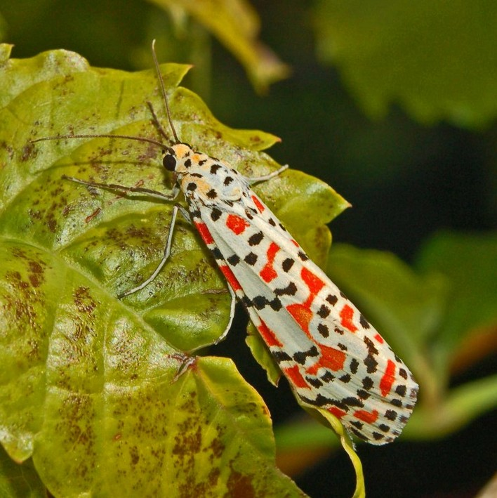 Utetheisa pulchella - Genova, Italy